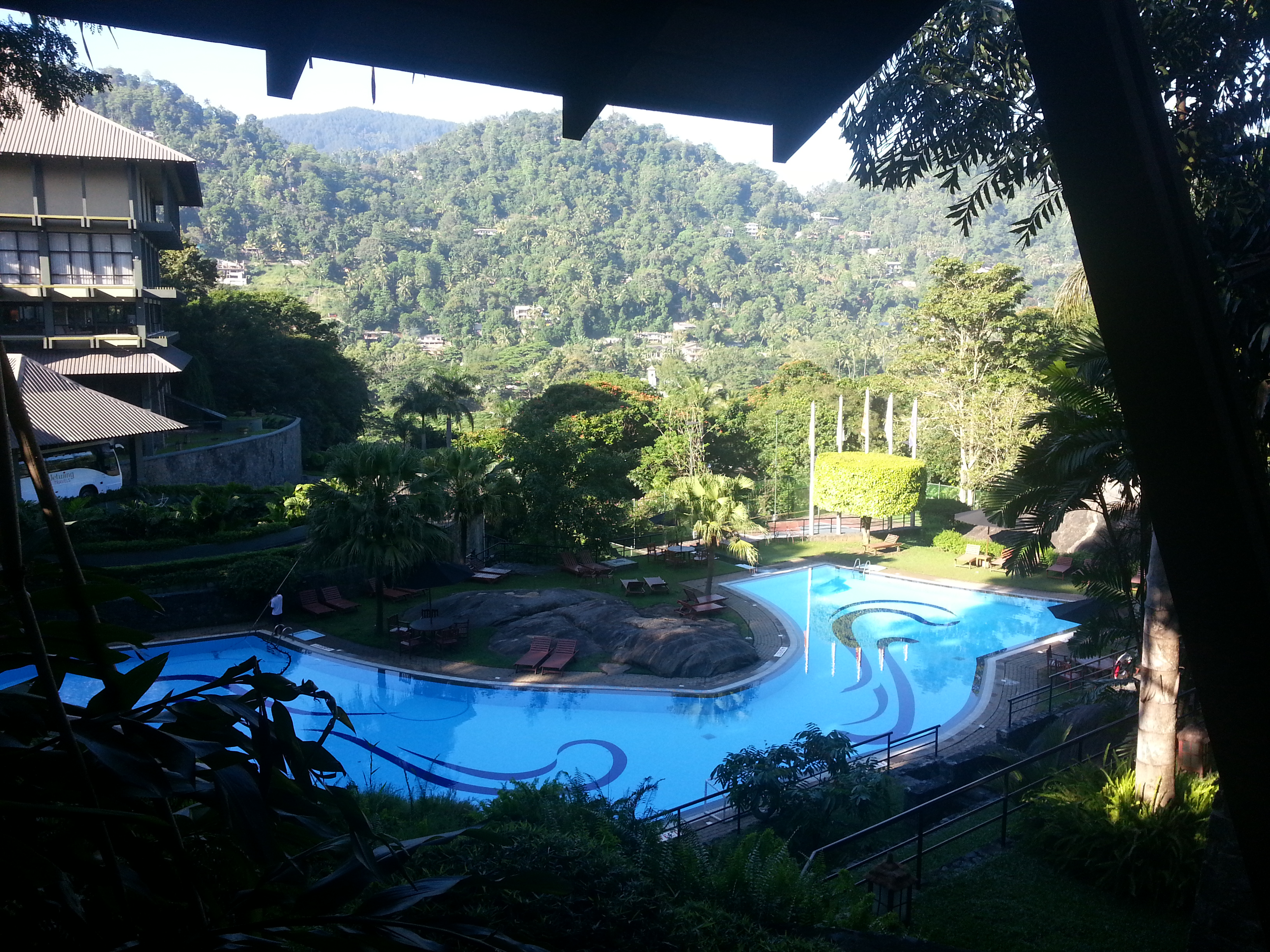 Earl's Regency Hotel-Kandy Sri Lanka Photograph-I